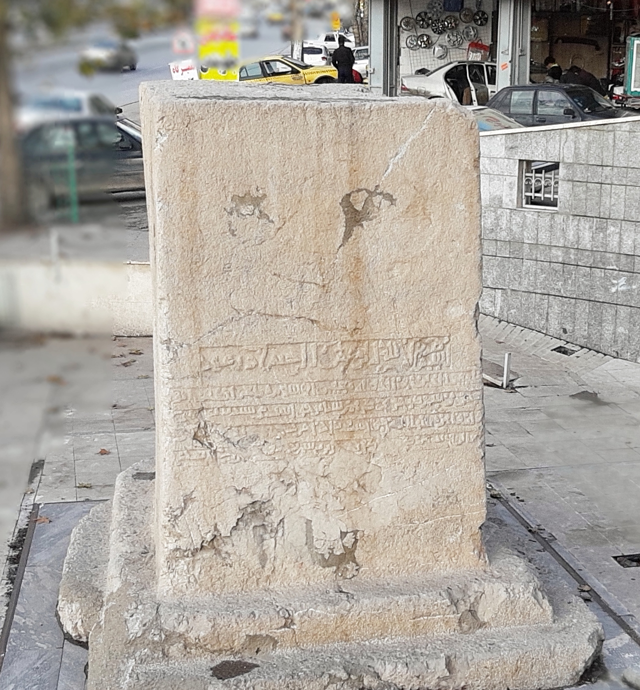 Sang Nebeshteh